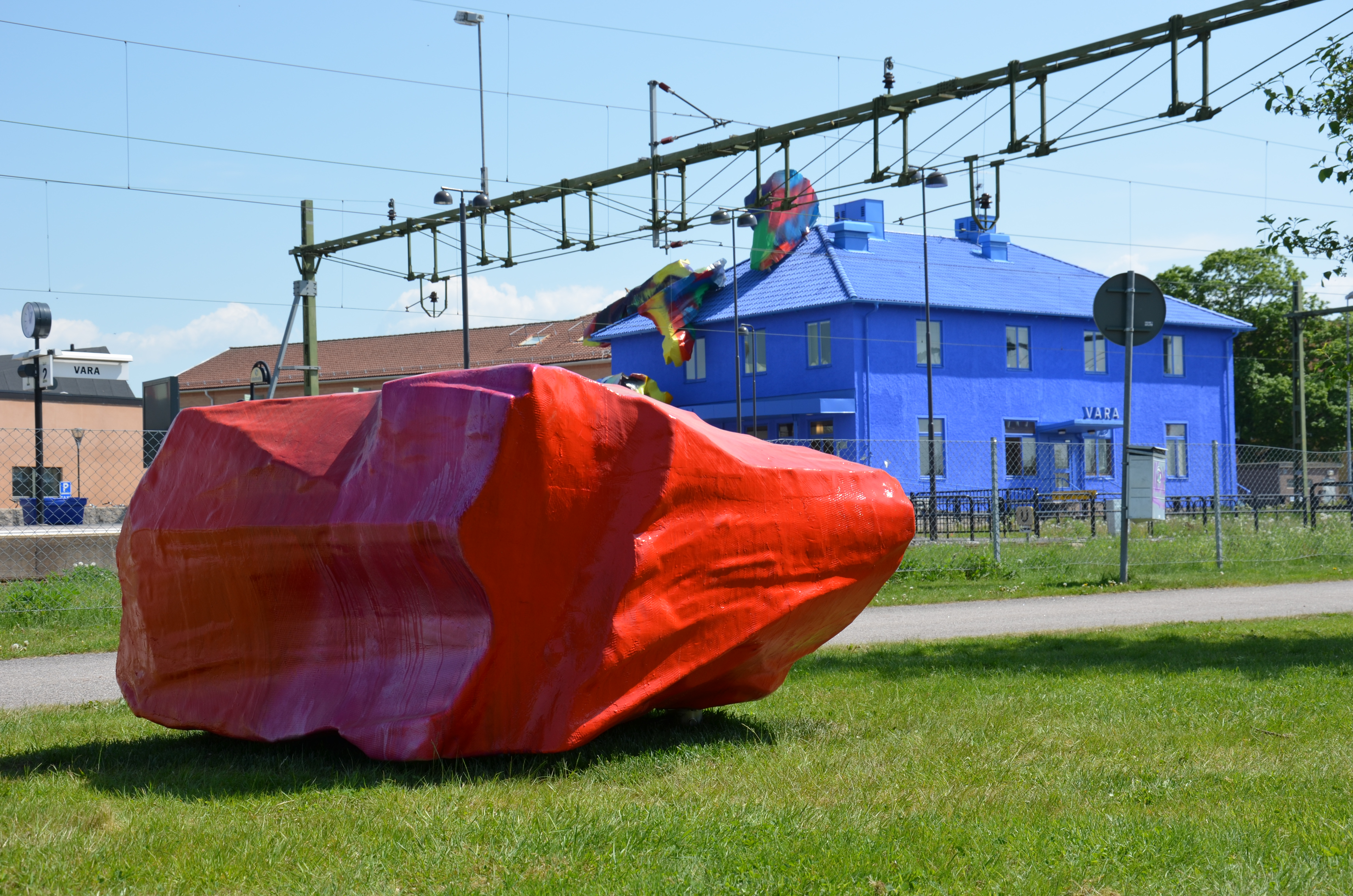 The Blue Orange, Vara train station, by Katharina Grosse. The small sculpture on the western side of the railway tracks. opposite to the train station.